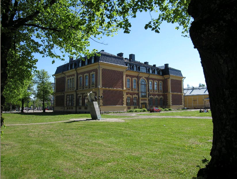 Joensuu art museum